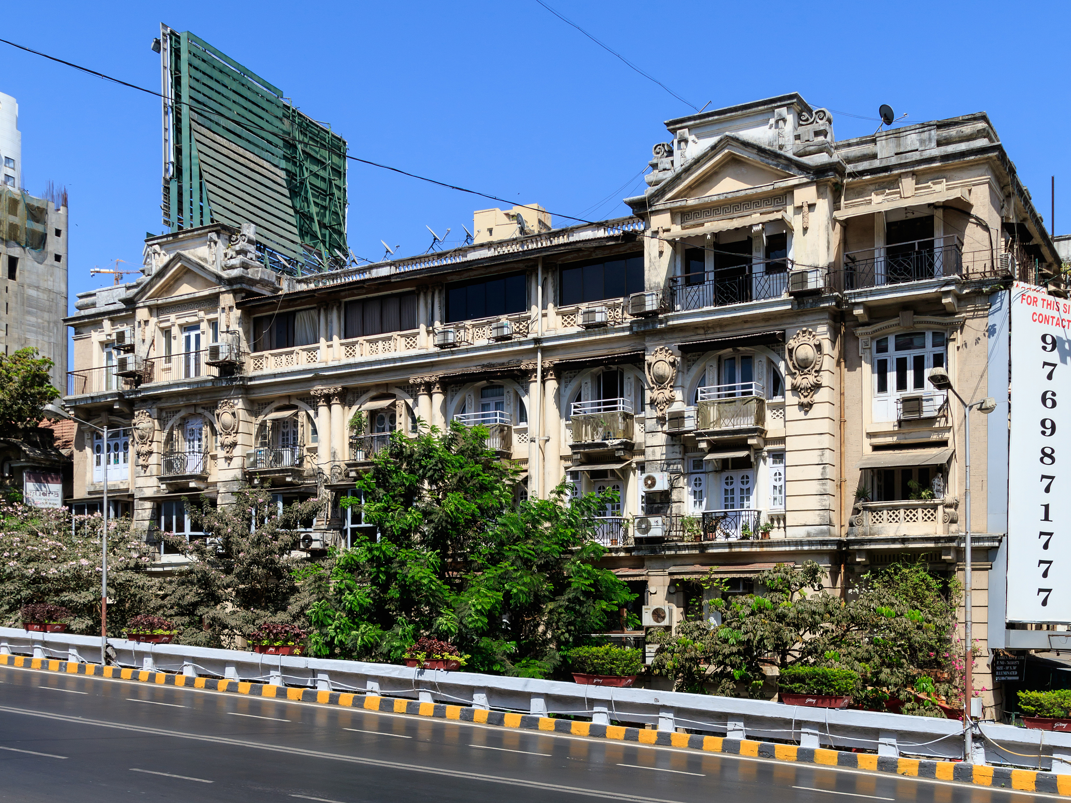 Colonial building at Kemps Corner in Mumbai, India